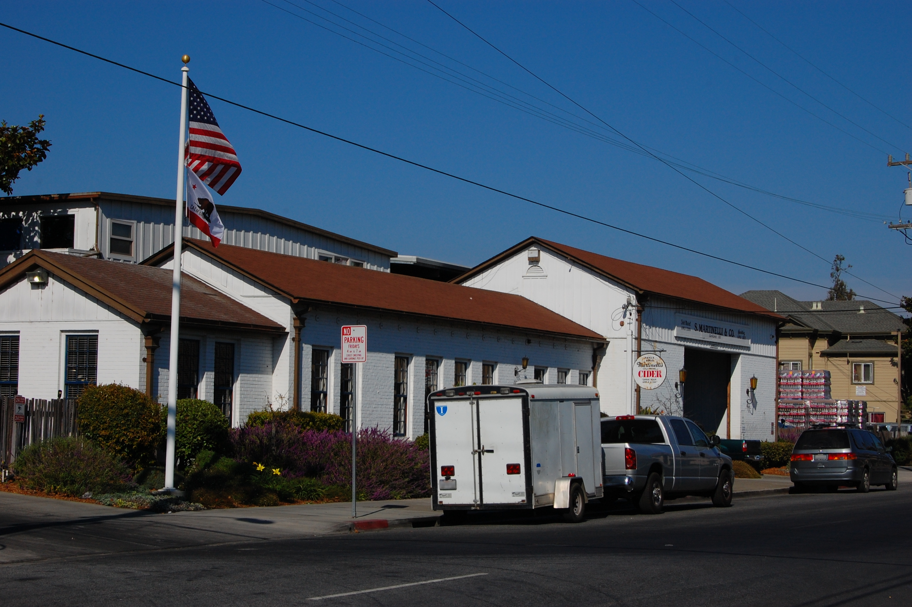 Martinelli's. 227 East Beach Street. Watsonville, California, USA.